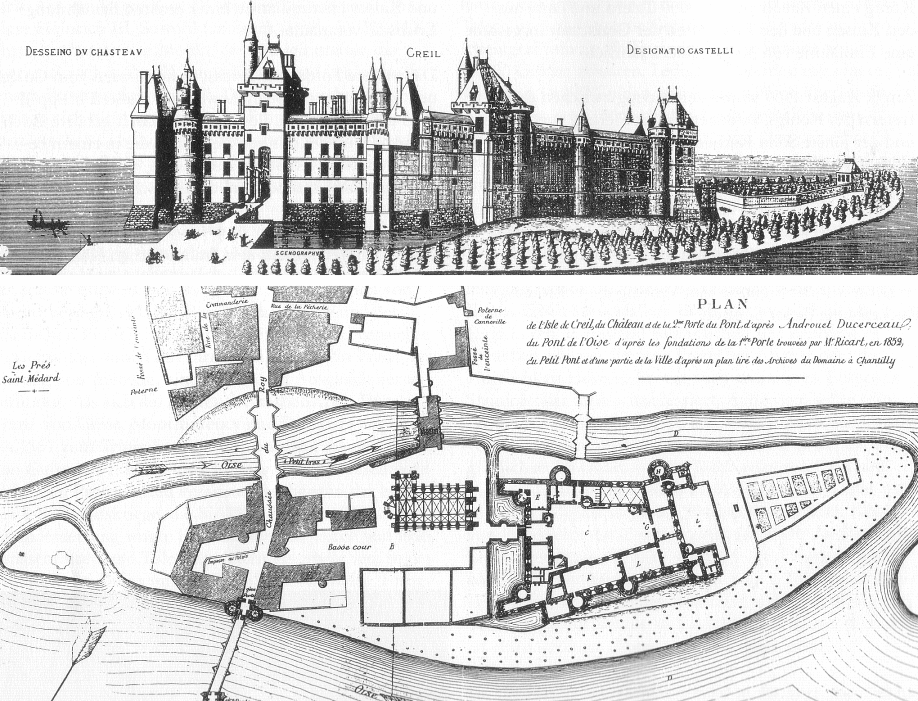 Top: View of the Châateau de Creil, reproduced from Le premier volume des plus excellents Bastiments (1576) by Jacques Androuet du Cerceau Bottom: Plan of Creil, a much modified version of the original from Le premier volume des plus excellents Bastiments (1576) (see a copy of the original here)